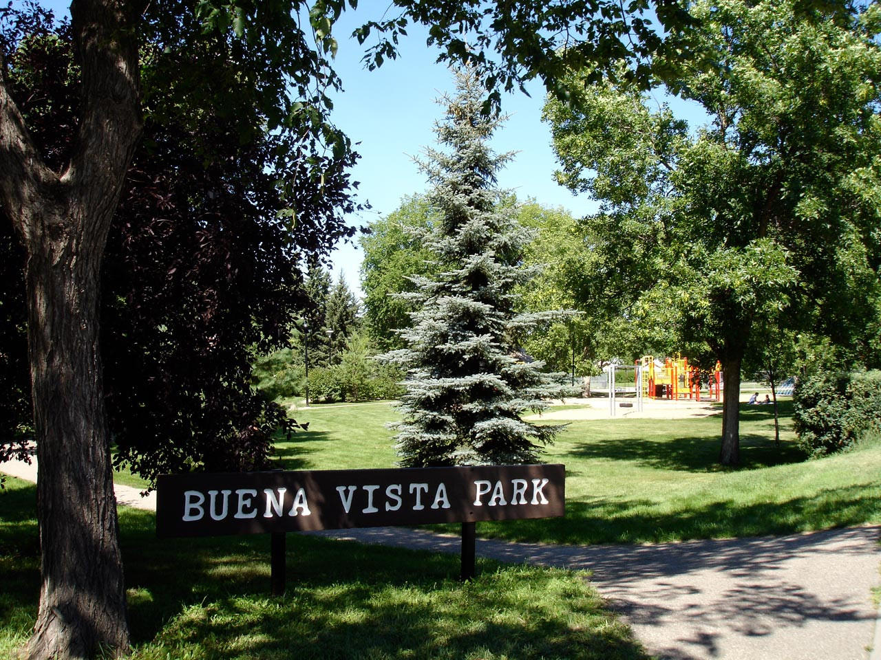 Buena Vista Park, a public park in the Buena Vista neighbourhood of Saskatoon, Saskatchewan, Canada.